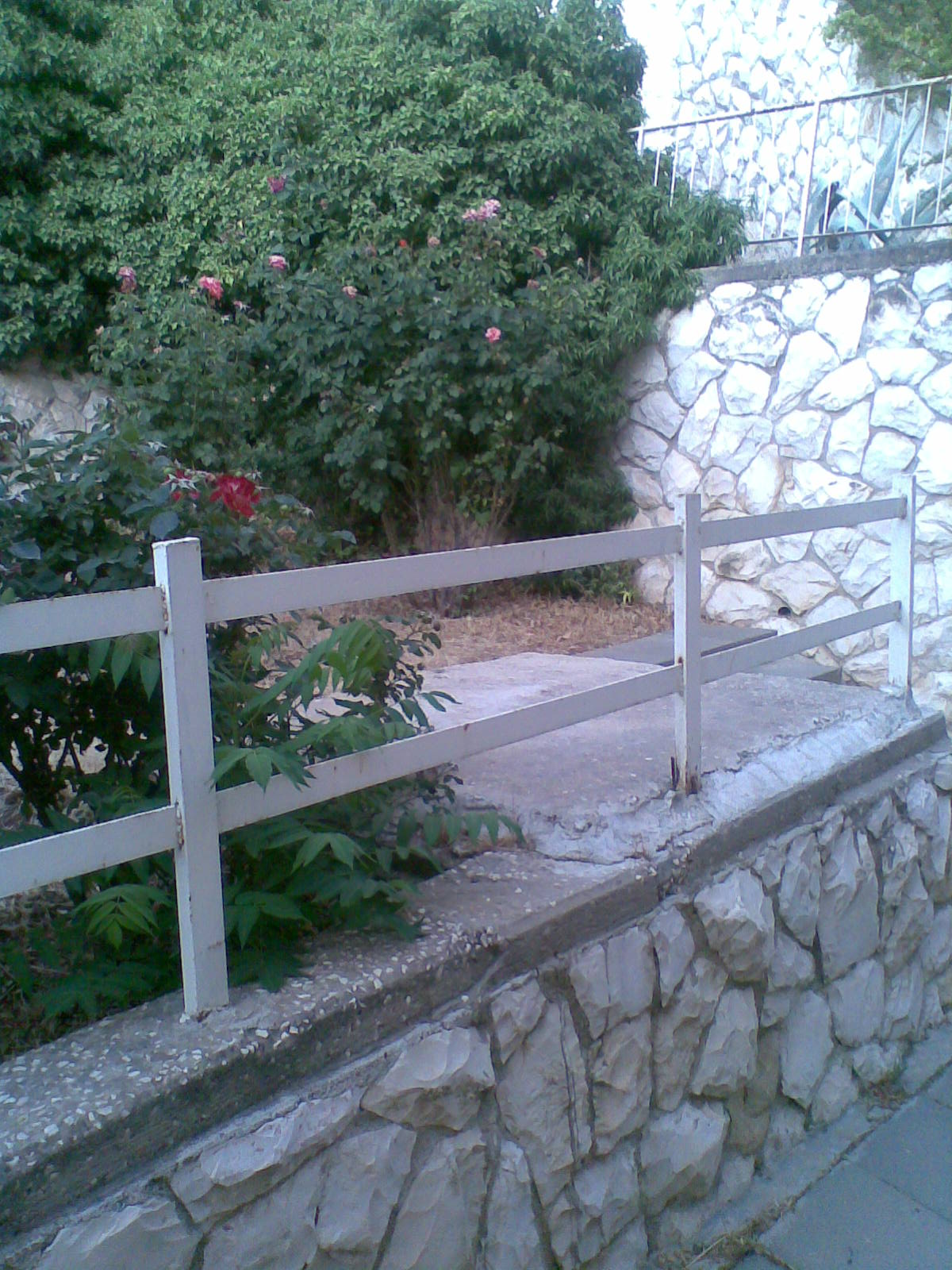 Concrete slab covering alternative location of Jesus' tomb in garden in Talpiot neighborhood, Jerusalem.